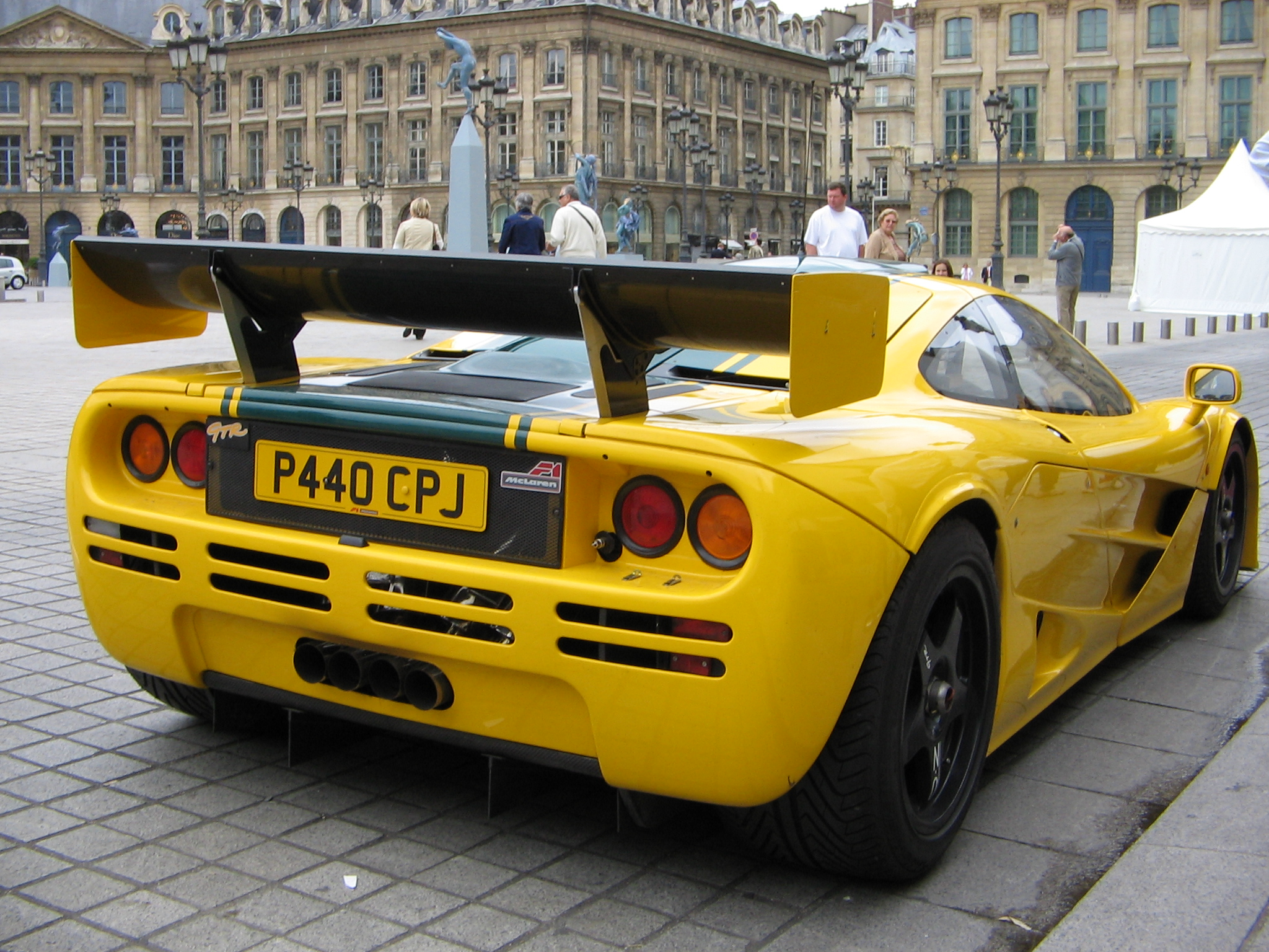 Rear view of a McLaren F1 GTR 95 in front of the Ritz in Paris. #06R 1995, Reg: P440 CPJ. David Clark, former Sales Director at McLaren Cars.